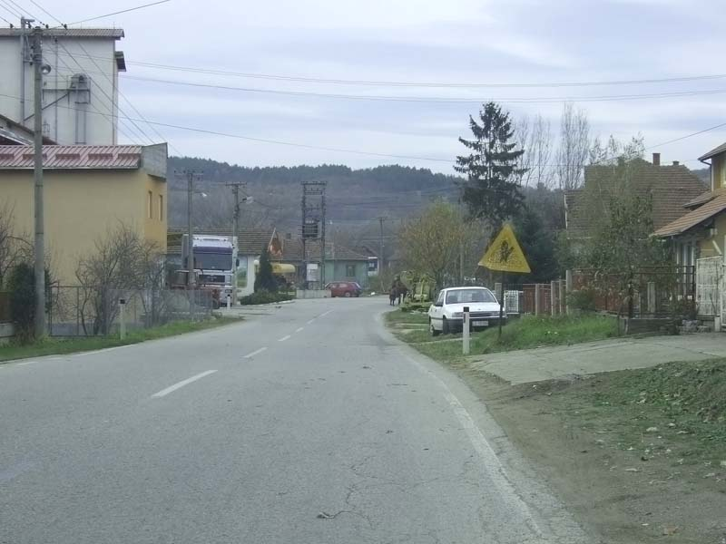 Boljare, near Vlasotince, Serbia